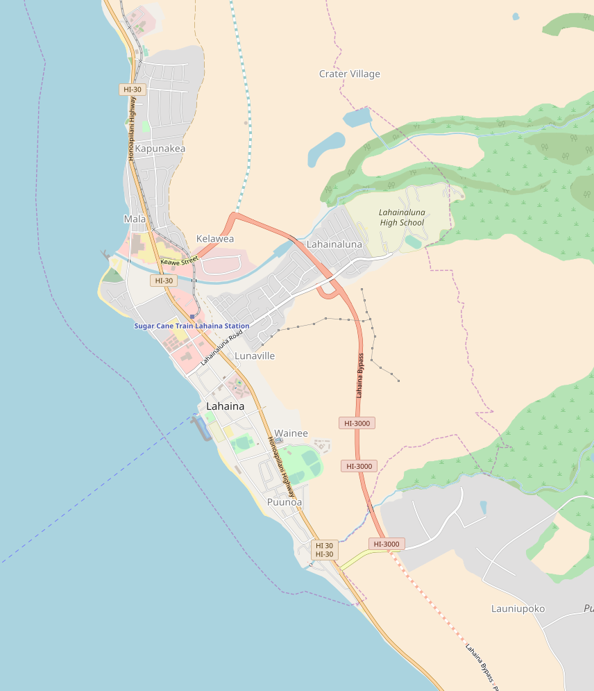 This map of Lahaina was created from OpenStreetMap project data, collected by the community. This map may be incomplete, and may contain errors. Don't rely solely on it for navigation.